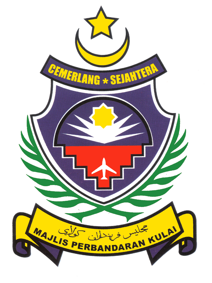 seal of Kulai Municipal Council